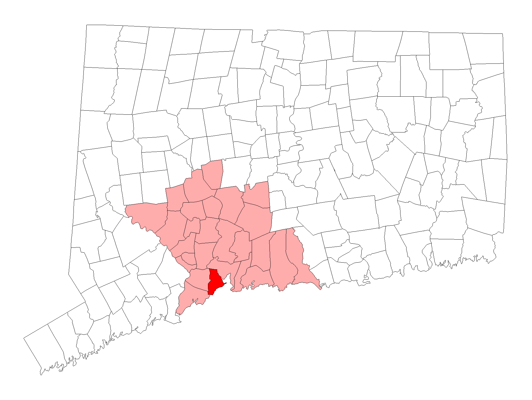 Location in New Haven County, Connecticut